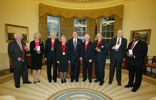 President George W. Bush stands with the recipients of the 2002 National Humanities Medal in the Oval Office Thursday, Feb. 27, 2003. From left, they are: Joseph McDade, who accepts the award on behalf of Frankie Hewitt of Ford's Theatre; Ellen Carroll Walton, who accepts the award on behalf of the Mount Vernon Ladies' Association of the Union; Dr. Donald Kagan of Yale University; author Patricia MacLachlan; Brian Lamb of C-SPAN; Art Linkletter of the United Seniors Association; Frank Conroy, who accepts the award on behalf of the Iowa Writers' Workshop; and Justice Clarence Thomas, who accepts the award on behalf of Dr. Thomas Sowell of the Hoover Institution. White House photo by Paul Morse.